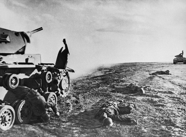 “Battlefield”. Battlefield. Russia.